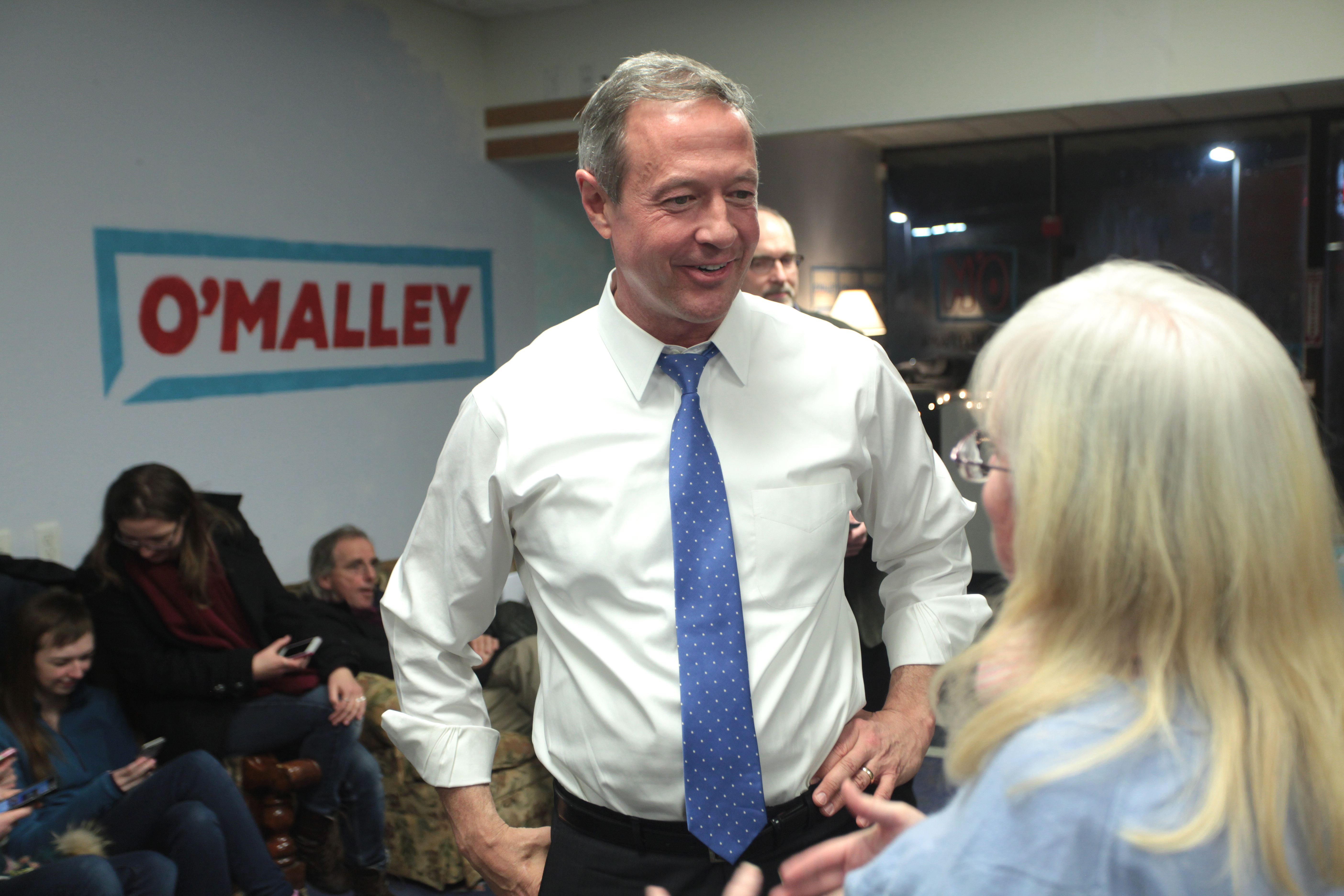 Martin O'Malley speaking at an event in Manchester, New Hampshire.